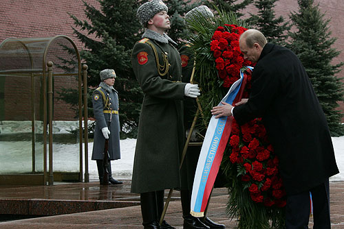 ALEXANDROVSKY GARDEN, MOSCOW. Wreath-laying ceremony at the Tomb of the Unknown Soldier.